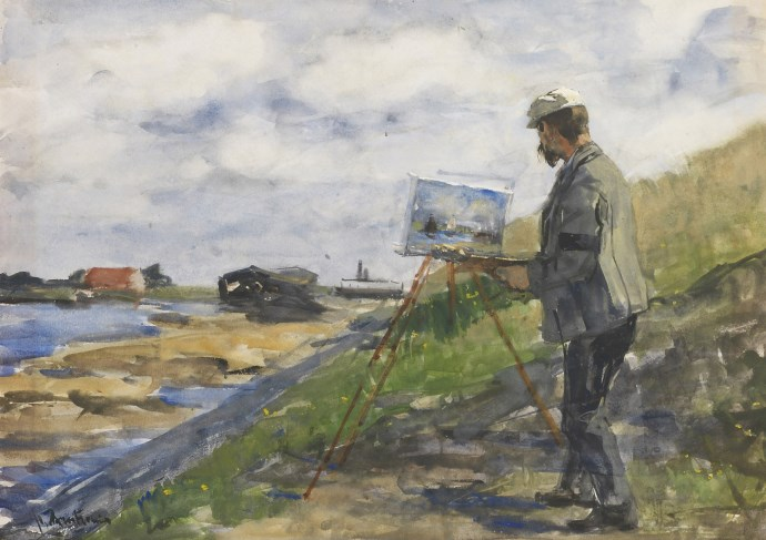 De schilder Carl August Breitenstein aan het werk